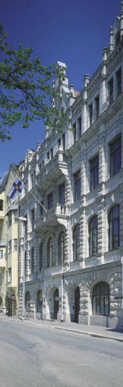 The courthouse of the Supreme Adminstrative Court of Finland, Pohjoisesplanadi 3, Helsinki. Built 1816. Architect:Pehr Granstedt.